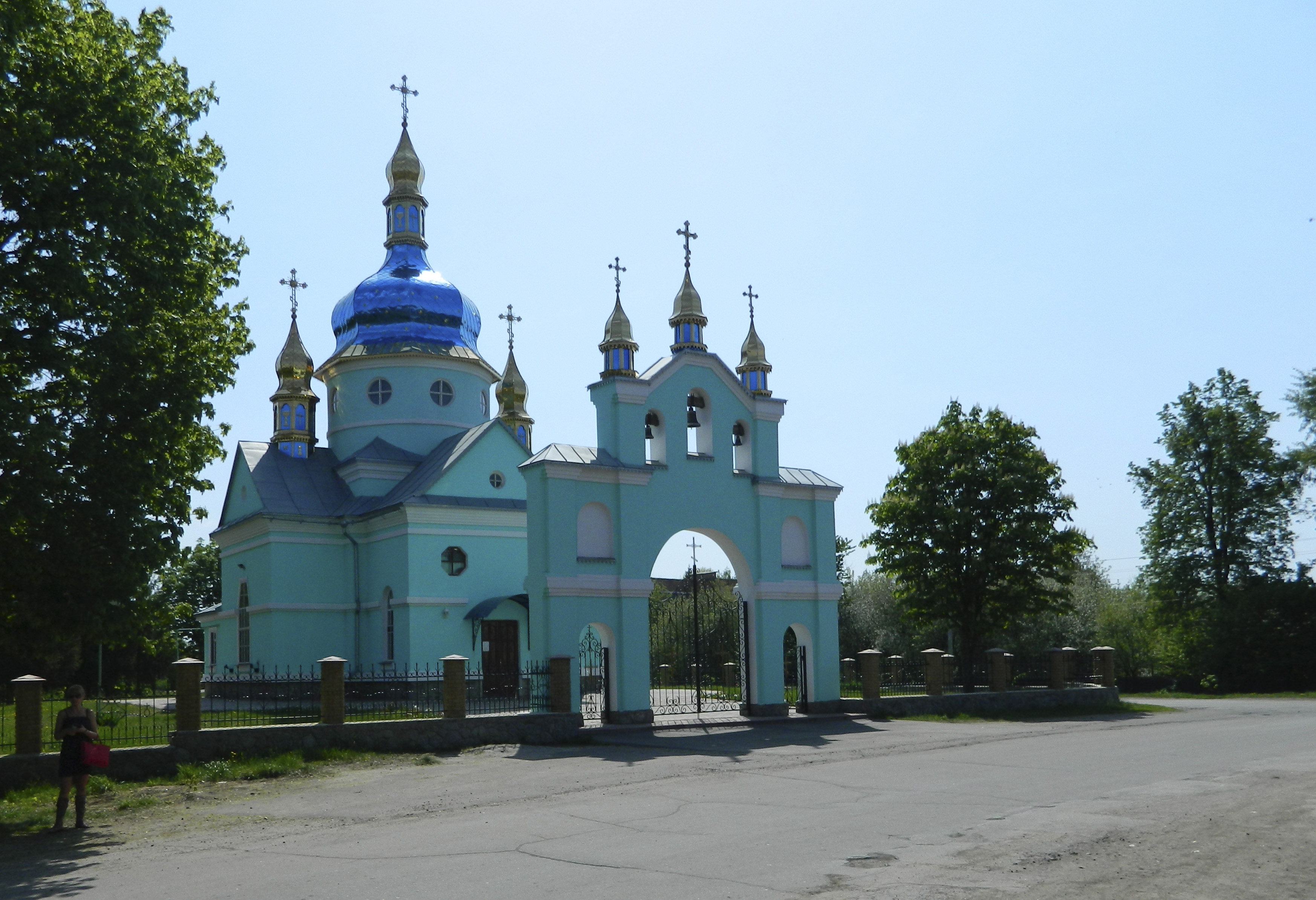 Temple of St. George. Stasia village, Poltava region, Ukraine.